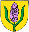 Shield: The field of gold a standard green oxygen spray with natural colored flower cluster. Helmet Cover: Green lined with gold. Helmet Ornament: An ascending mermaid of gold in each hand holding a green oxygen spray with natural colored flower cluster.